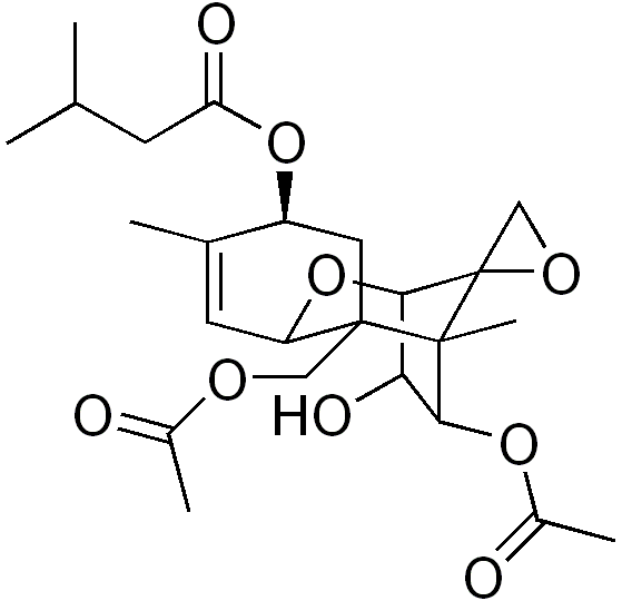 chemical structure of T-2 mycotoxin (Fusariotoxin T 2, Insariotoxin, Mycotoxin T 2, NSC 138780)